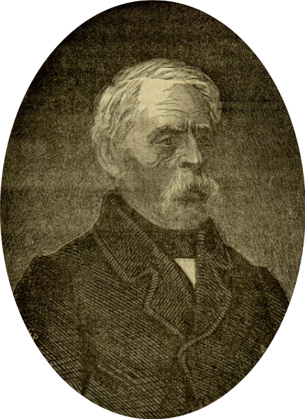 António de Pádua da Costa e Almeida, 1st Viscount of Tavira (1794-1867)